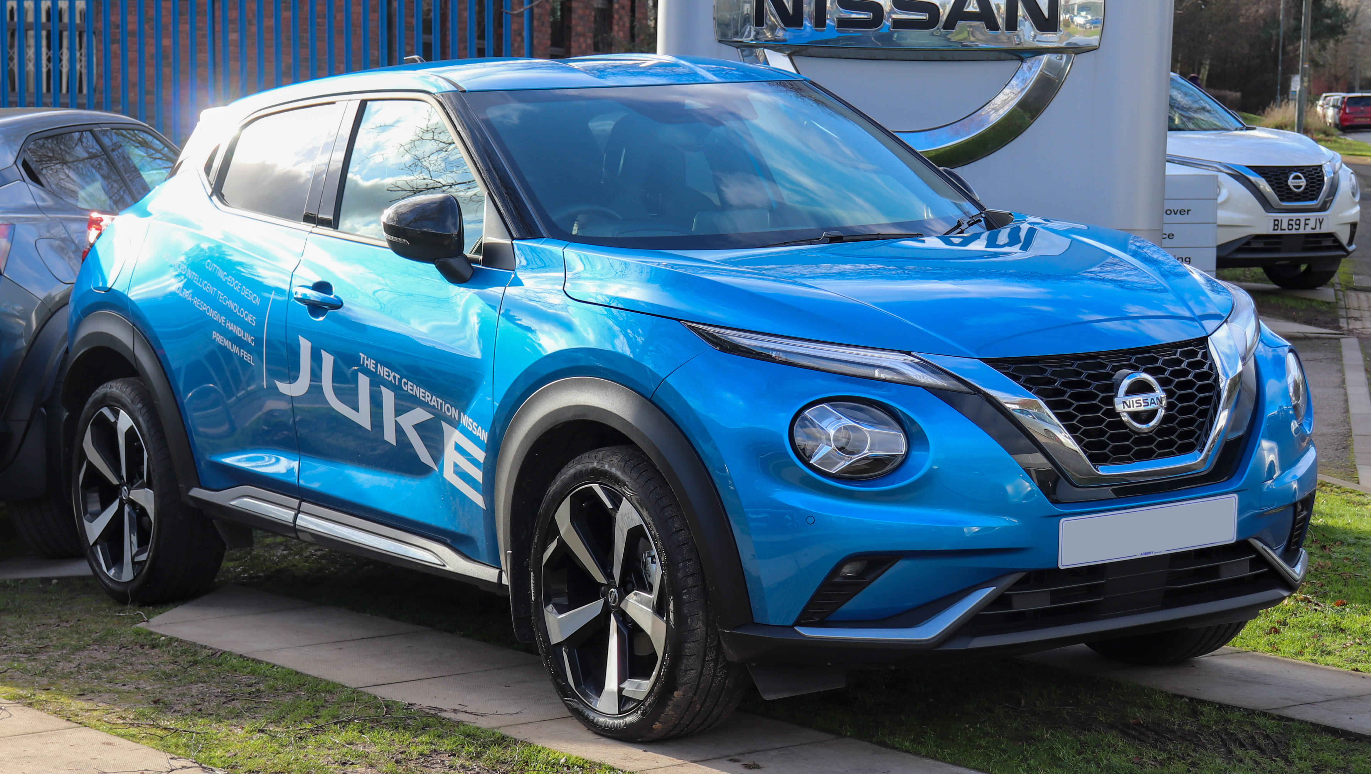 2019 Nissan Juke Tekna Dig-T S-A 1.0 Taken in Leamington Spa